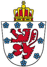 Coat of arms of the German speaking community of Belgium